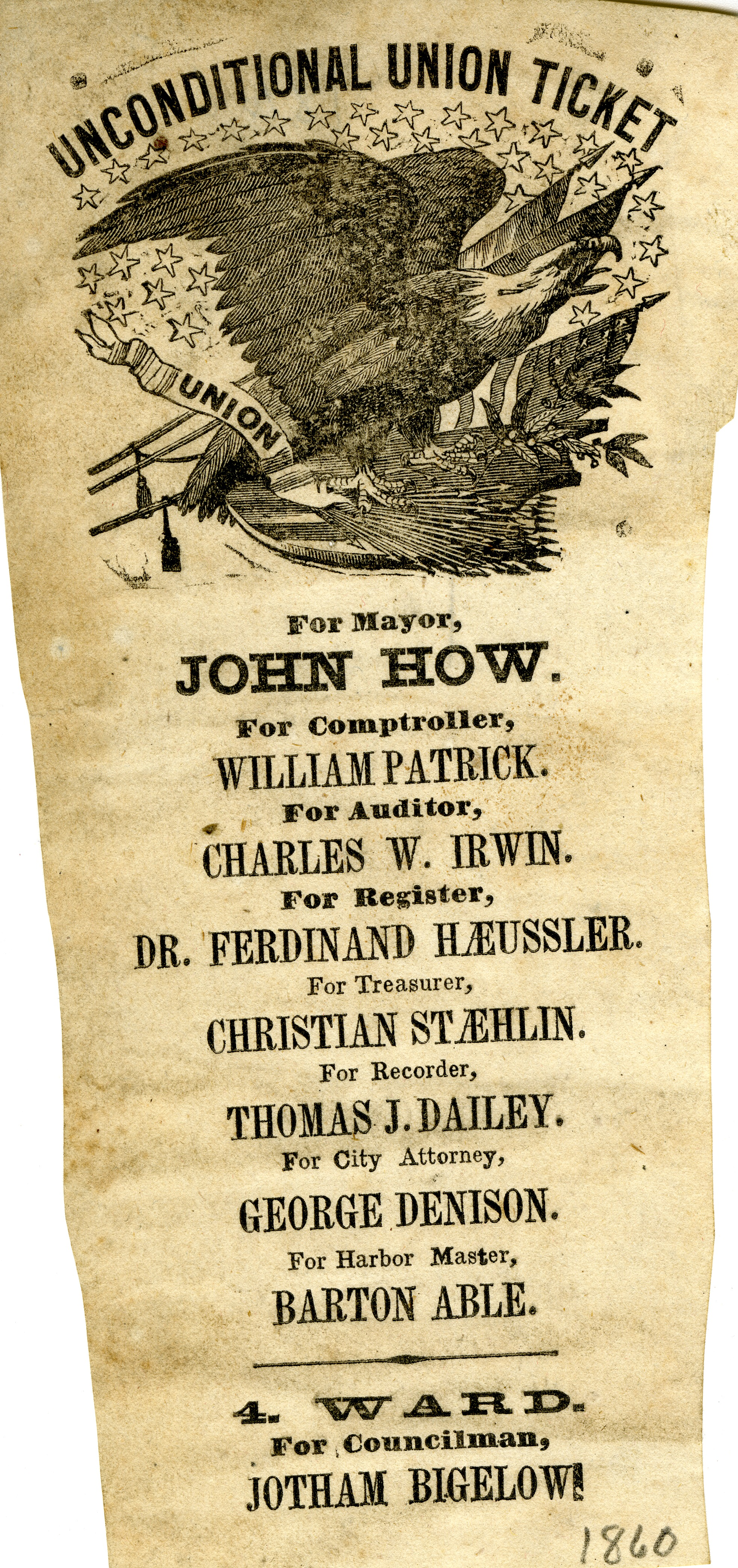 Title: Political party ticket (St. Louis): "Unconditional Union Ticket," 1860